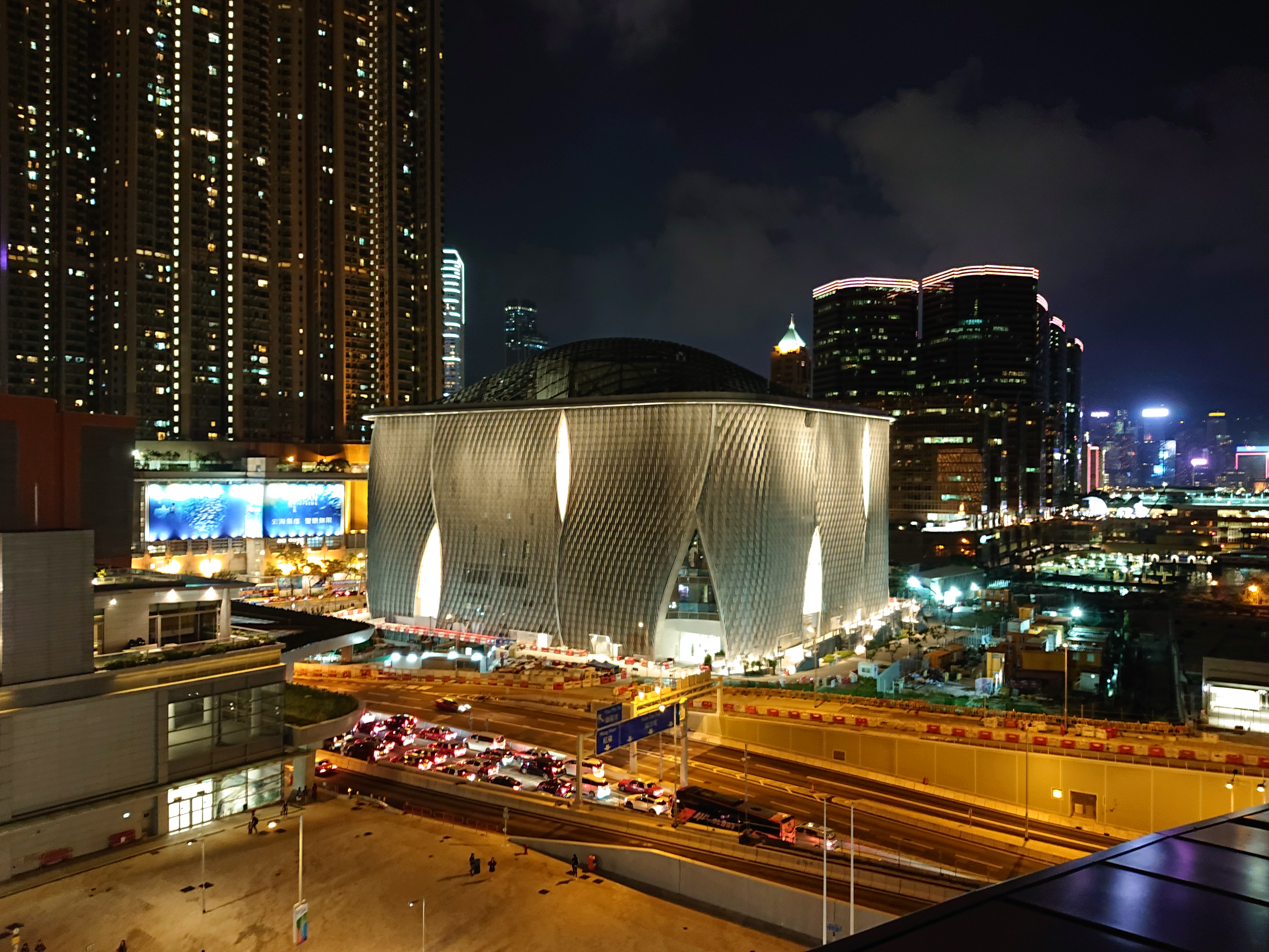 Xiqu Centre viewed from West Kowloon Station at night